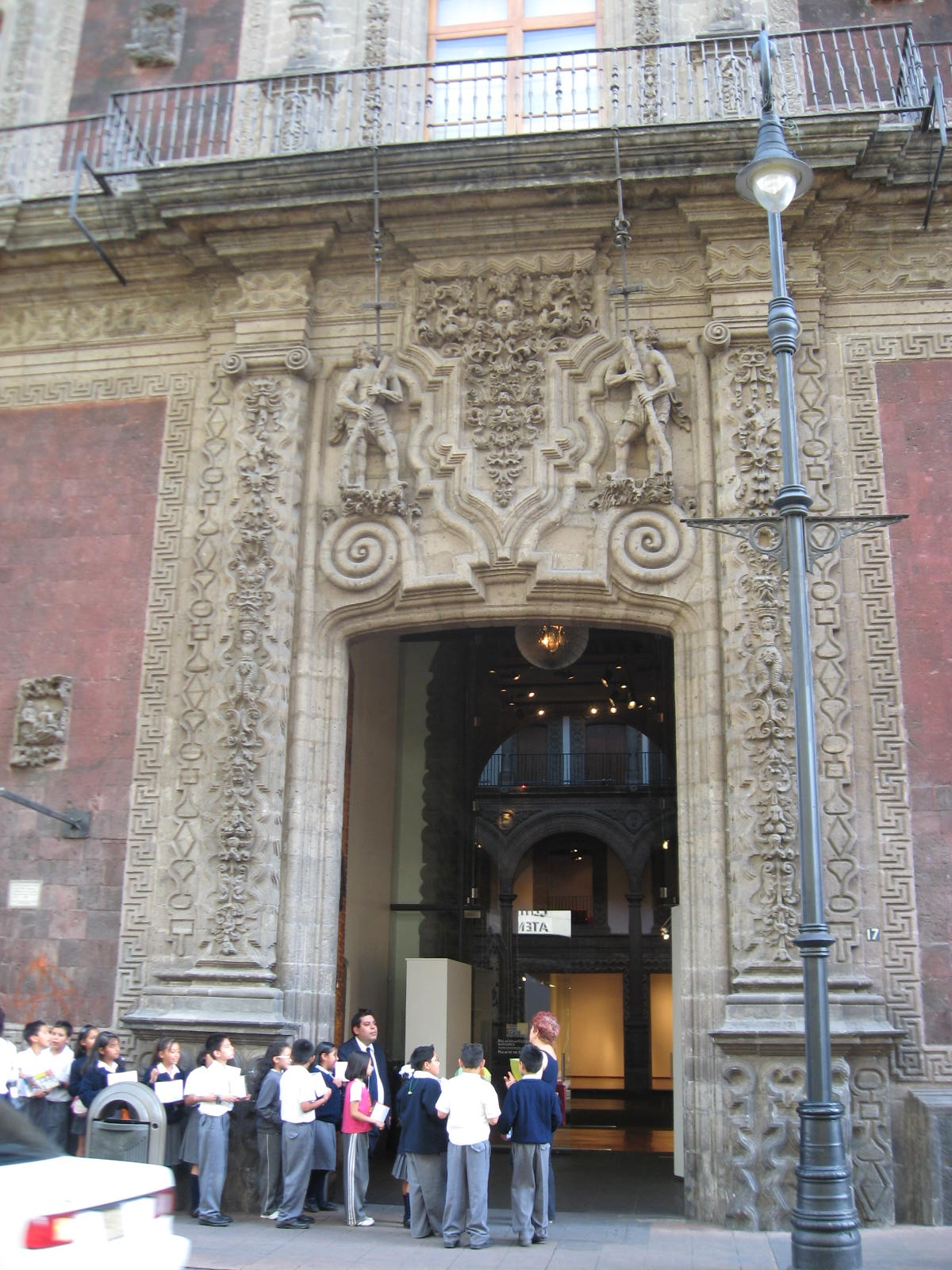 Doorway into the Palace of Iturbide located in the historic center of Mexico City